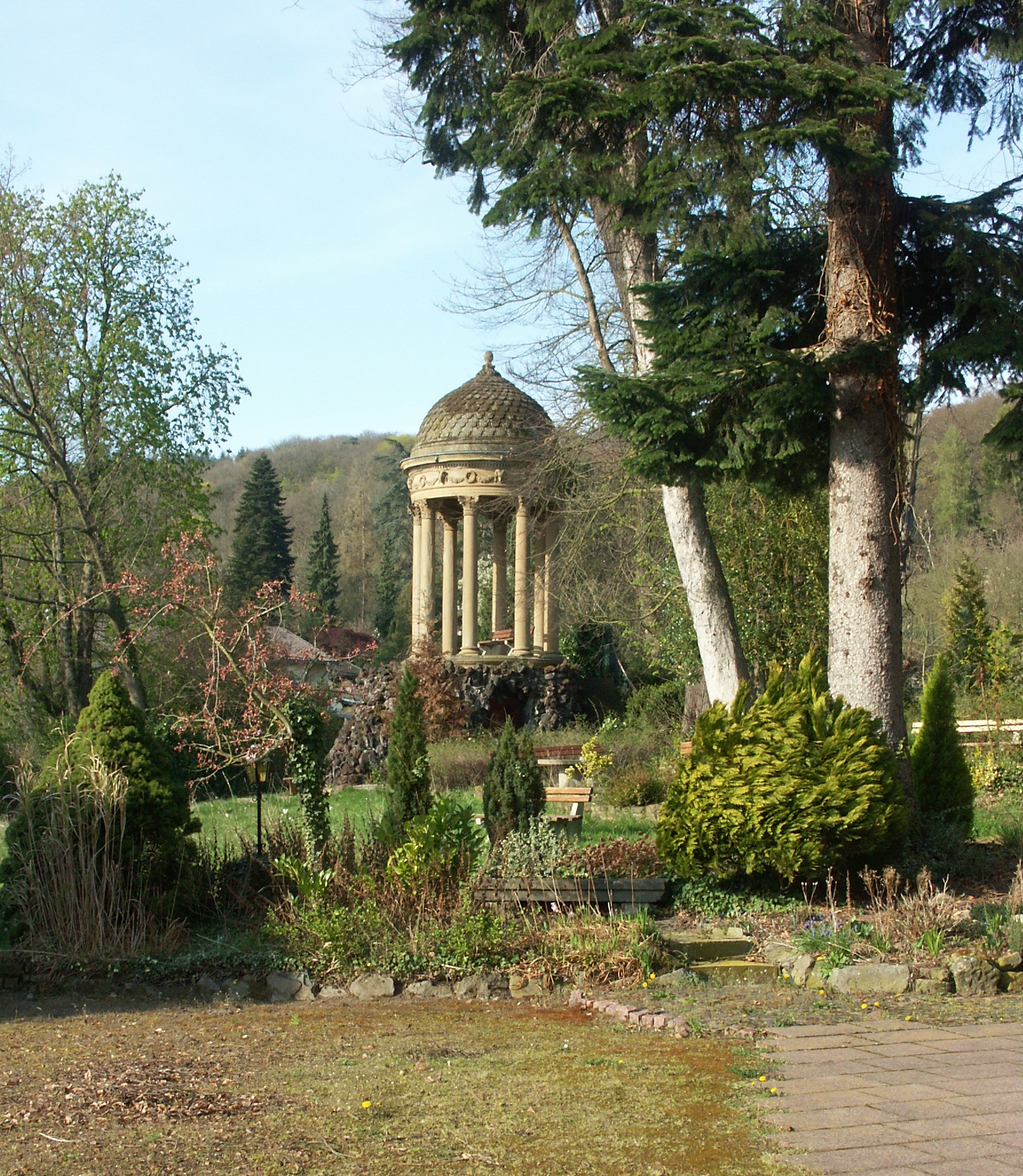 Monopteros in the gardens of the Villa Schaaffhausen, Bad Honnef